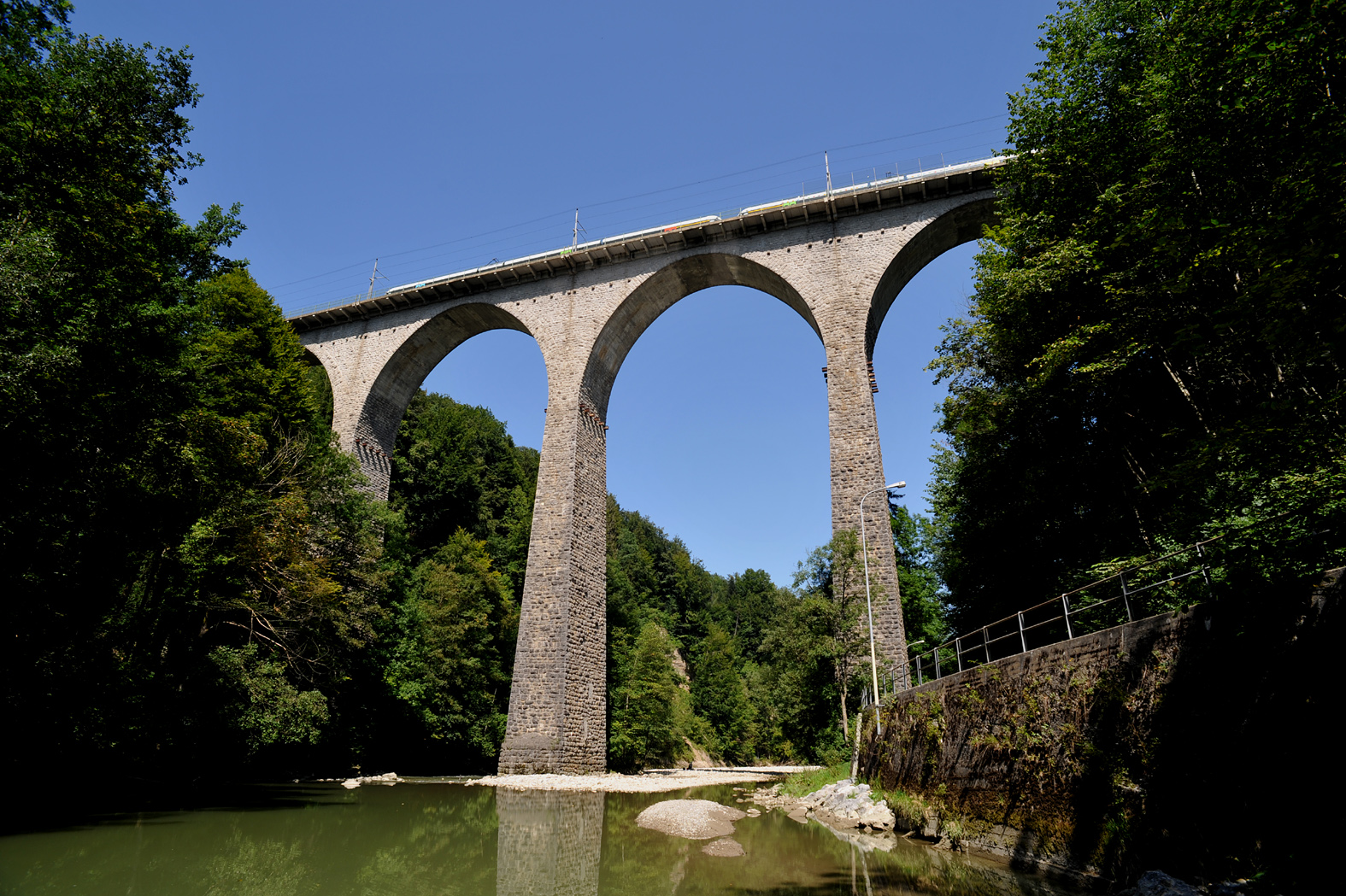 SBB Sitter viaduct; St. Gallen, Switzerland.